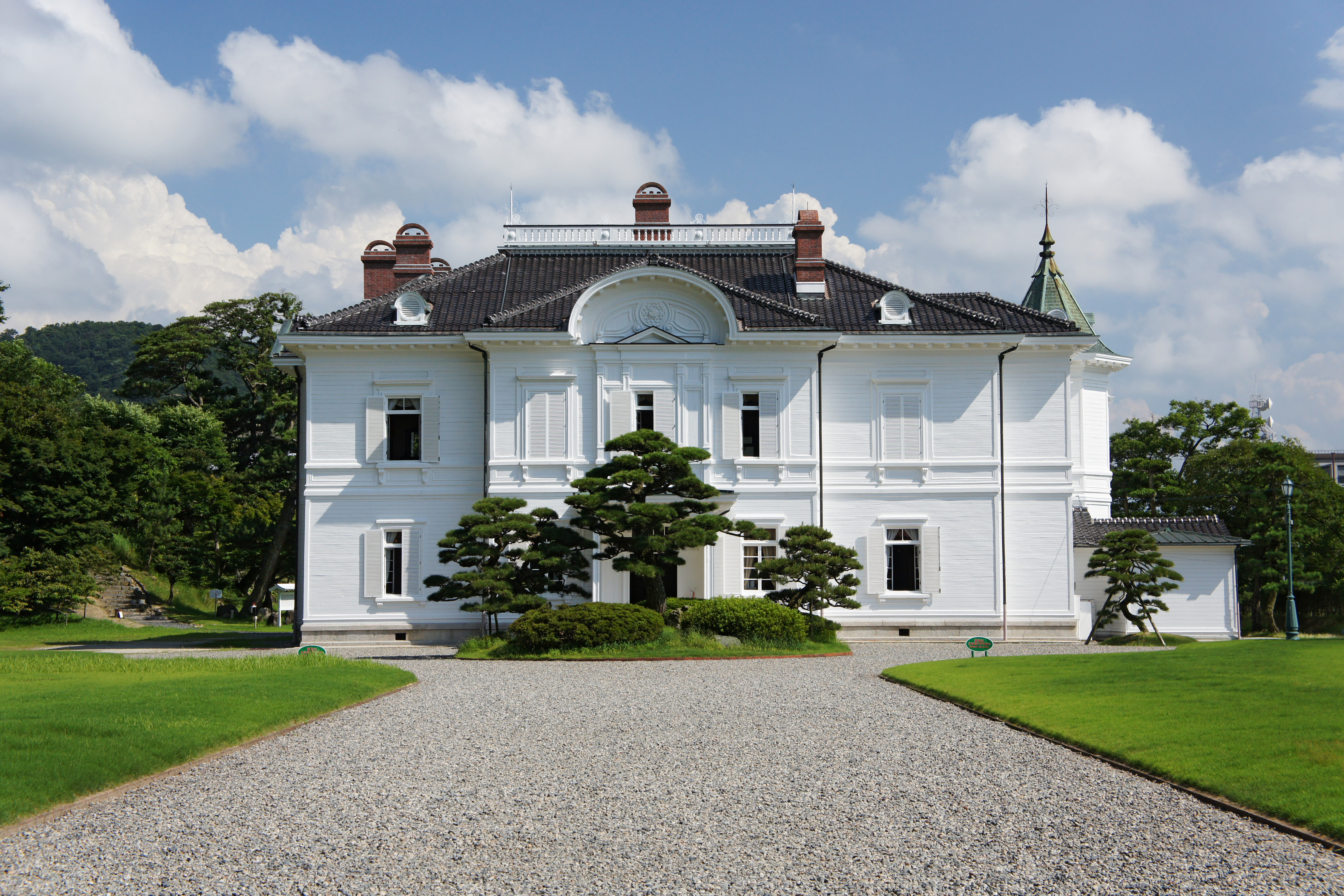 Jinpukaku in Tottori, Tottori prefecture, Japan